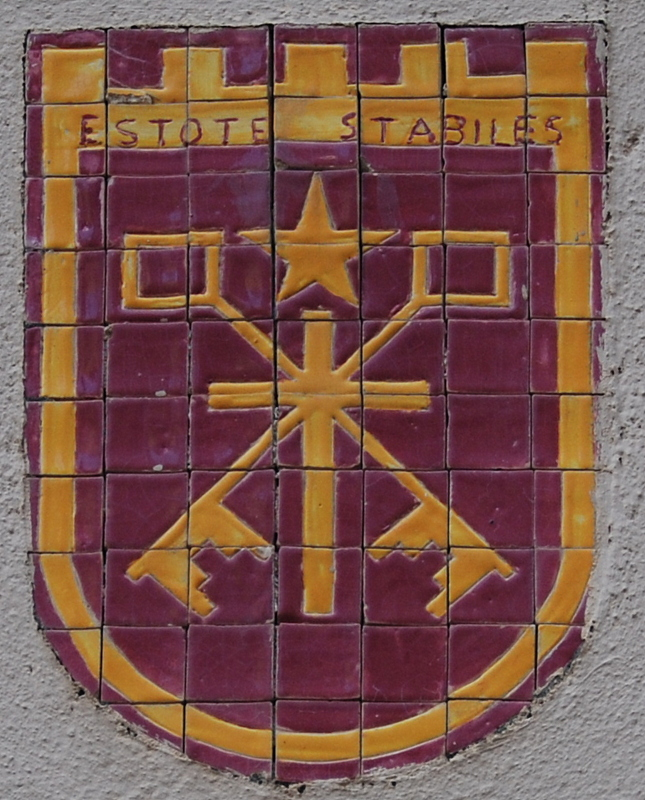 Mosaic of Grammar School Badge at Sacred Heart Terraces, Gibraltar